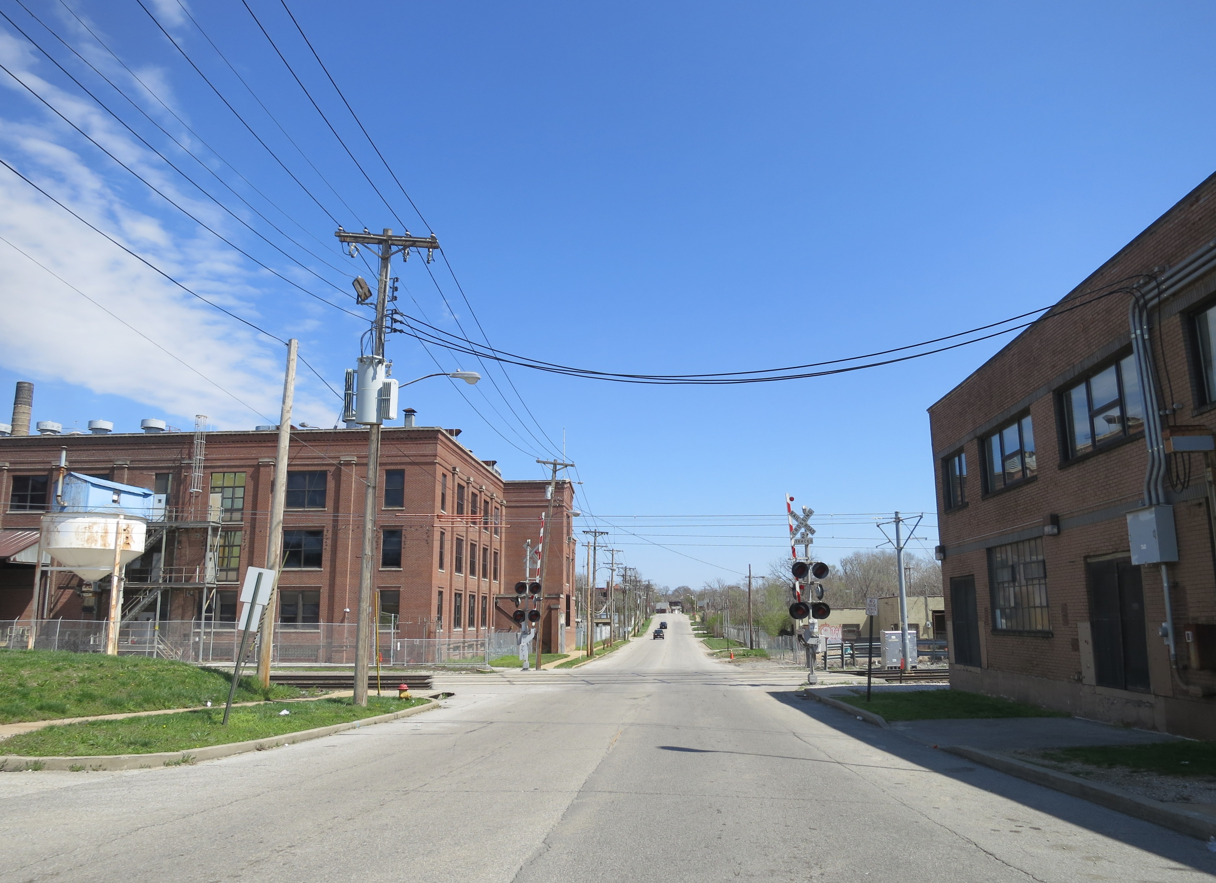 Industry in Wellston, Missouri, United States.